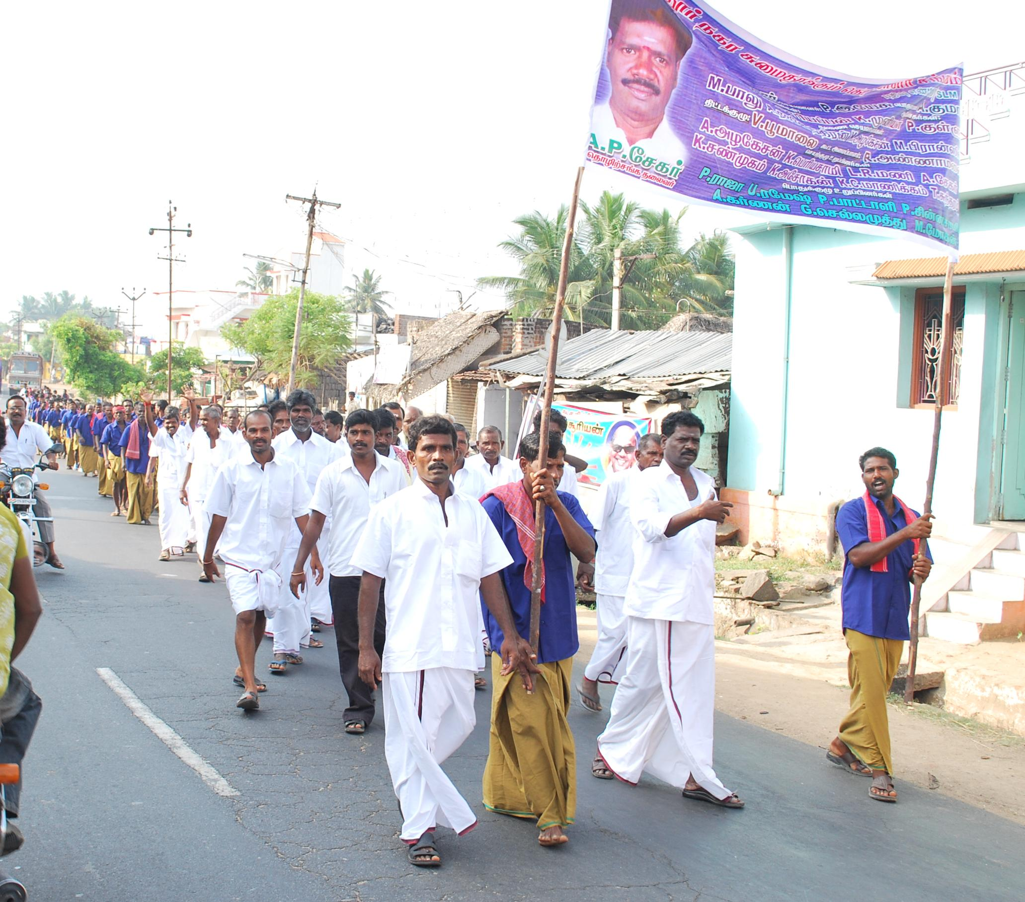 procession of loaders(சுமை தூக்கும் தொழிலாளர்கள்)in salem district, Tamilnadu state, India.